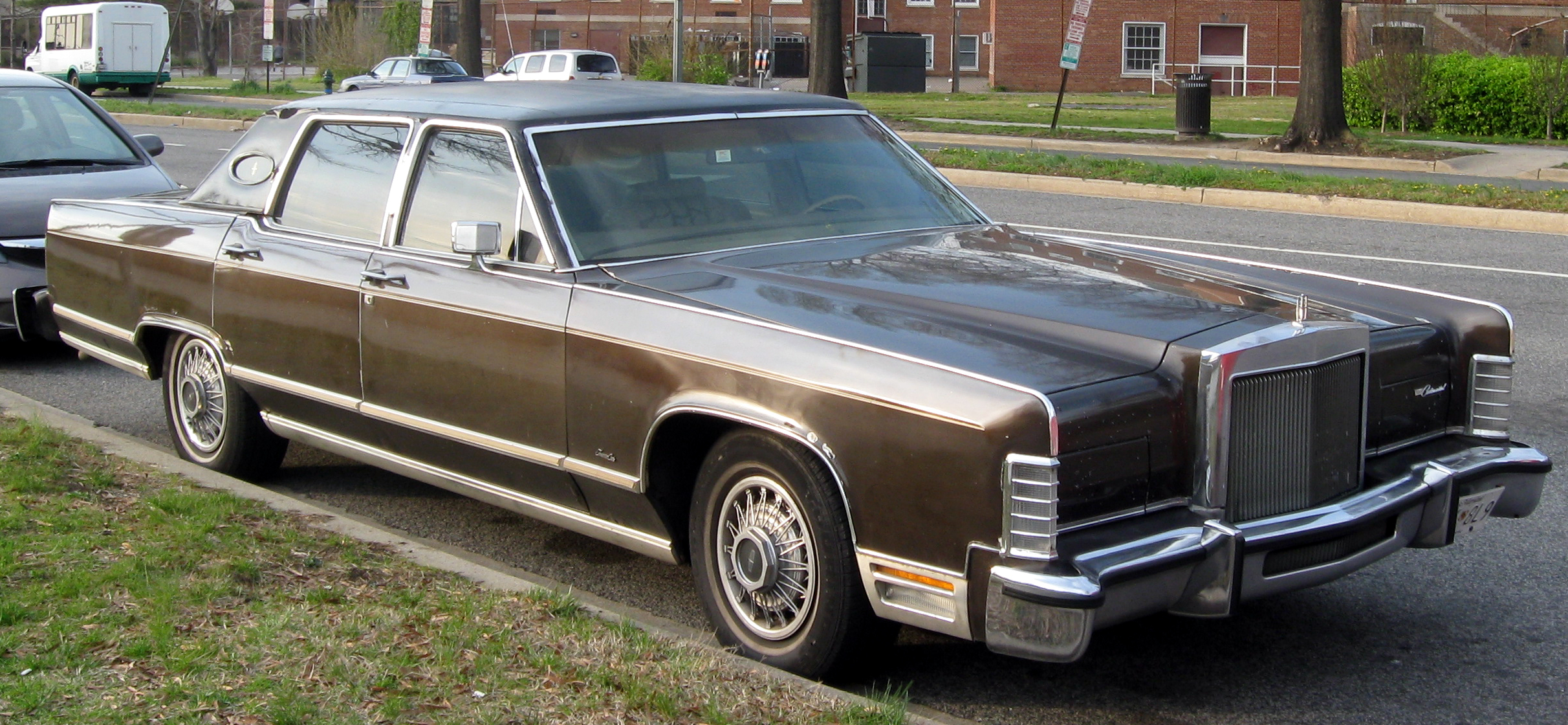 Lincoln Continental Town Car photographed in Washington, D.C., USA.